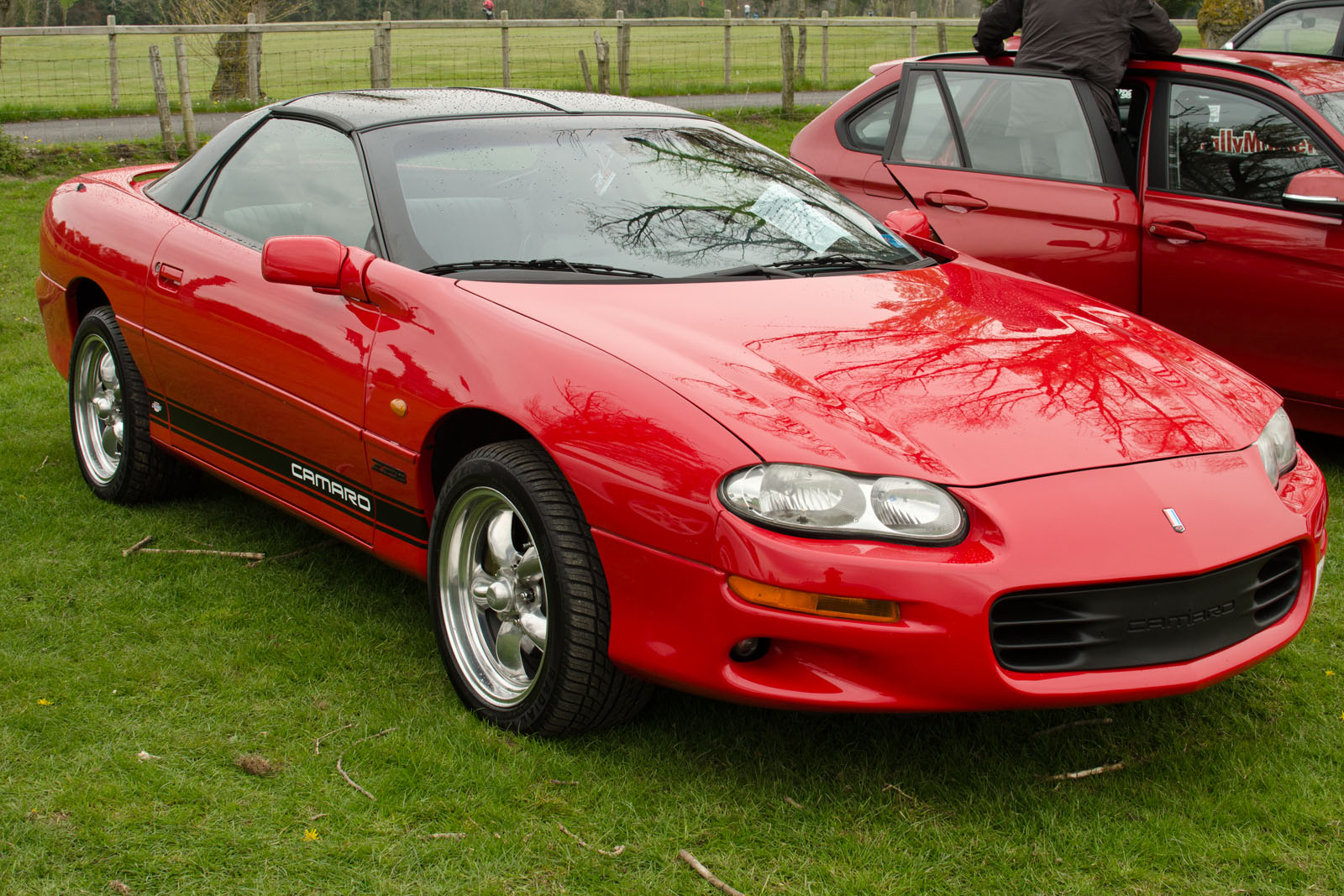 St Asaph Classic Car Show 20/04/2014